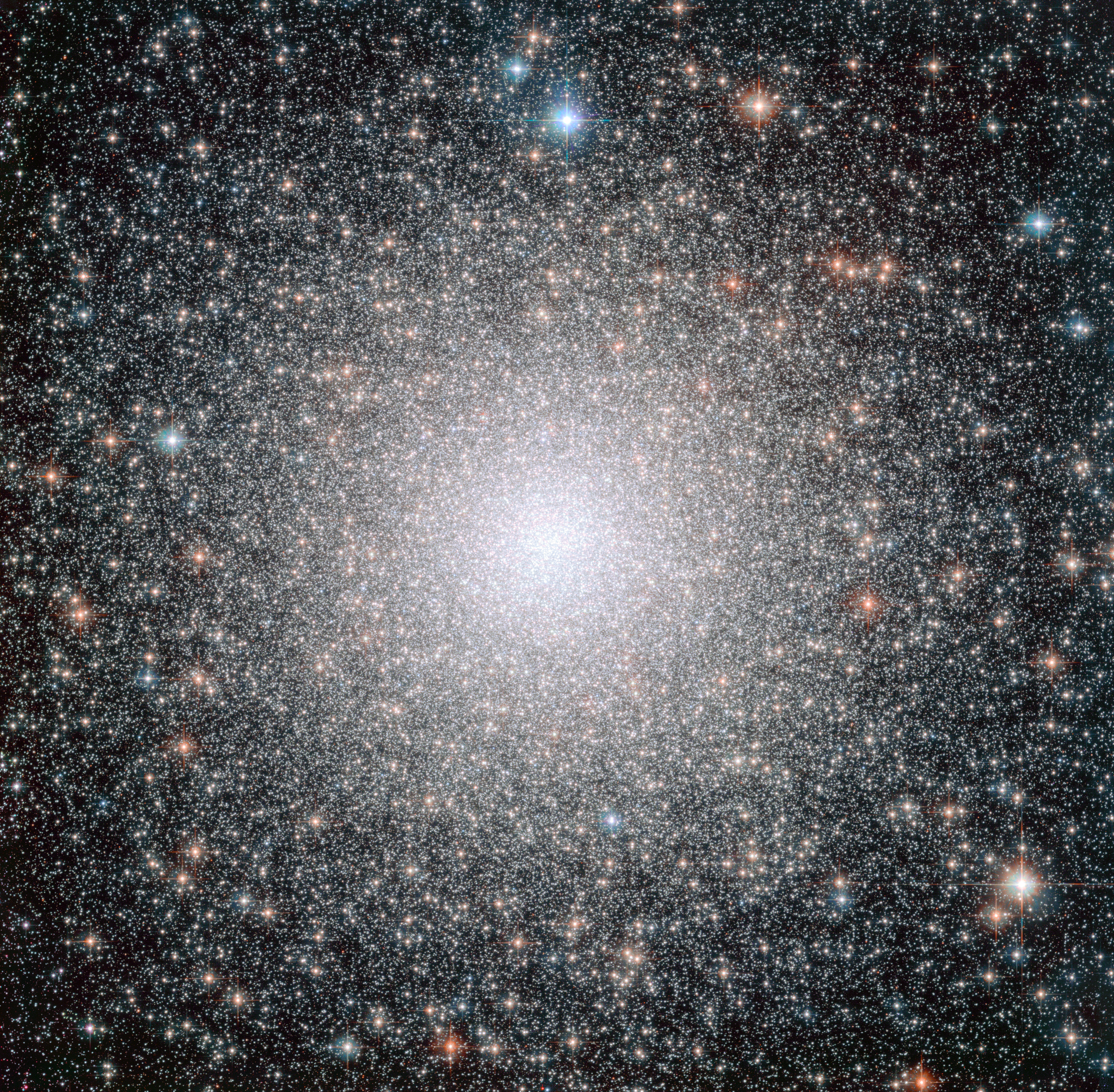 This image from the NASA/ESA Hubble Space Telescope shows NGC 6388, a dynamically middle-aged globular cluster in the Milky Way. While the cluster formed in the distant past (like all globular clusters, it is over ten billion years old), a study of the distribution of bright blue stars within the cluster shows that it has aged at a moderate speed, and its heaviest stars are in the process of migrating to the centre. A new study using Hubble data has discovered that globular clusters of the same age can have dramatically different distributions of blue straggler stars within them, suggesting that clusters can age at substantially different rates.